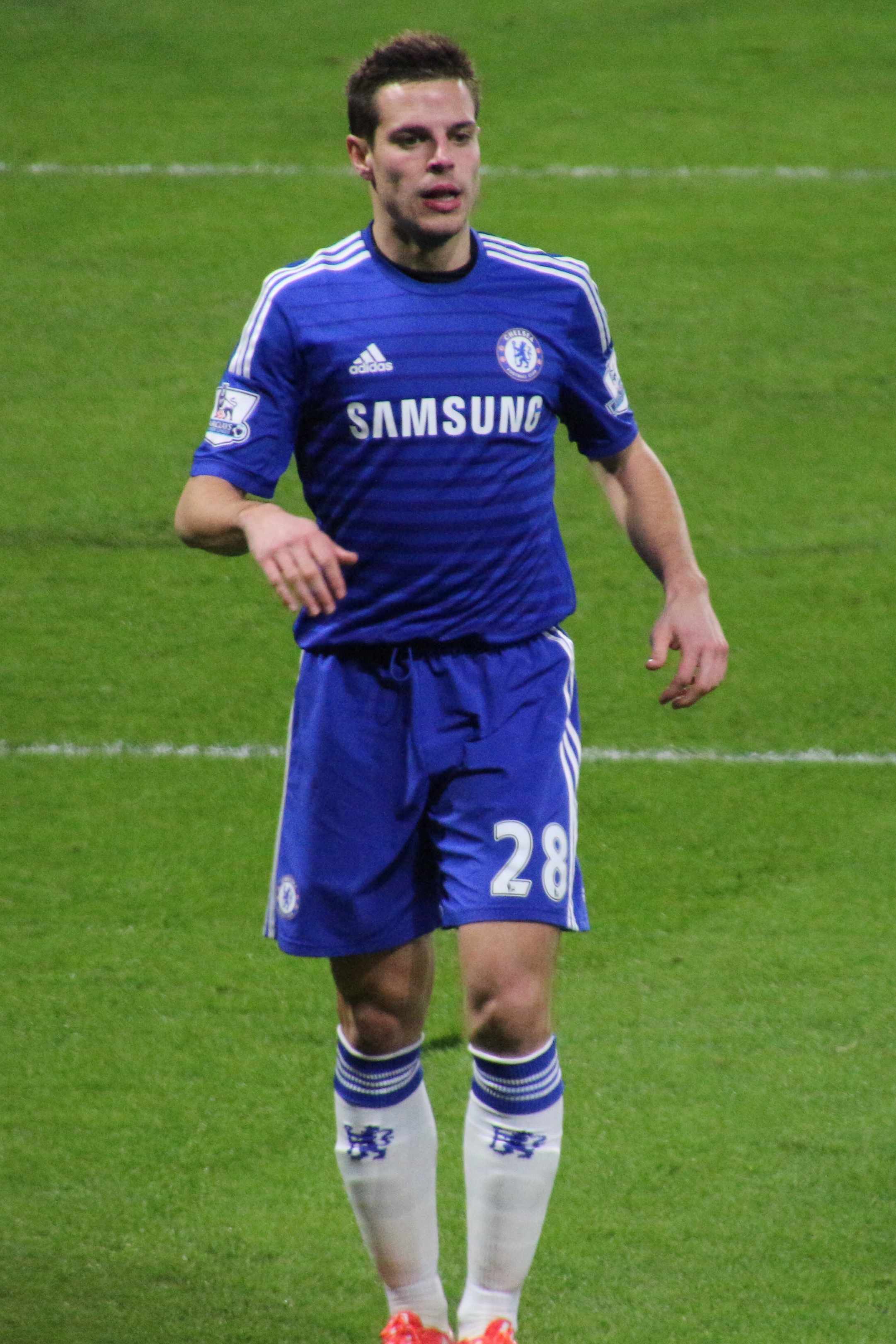 Chelsea 1 Everton 0